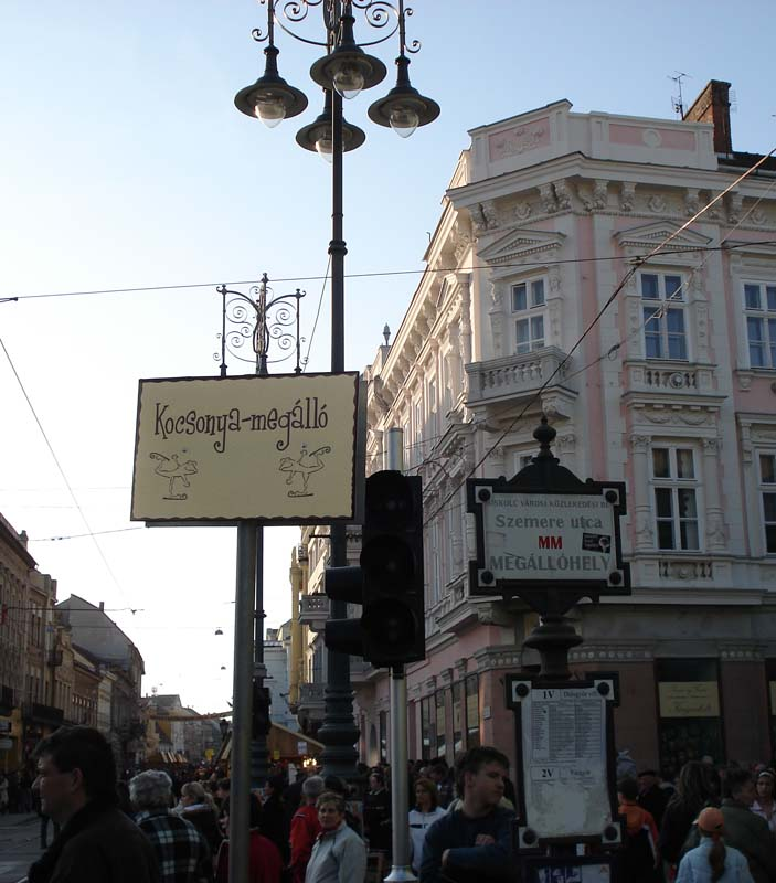 Jelly festival, Miskolc, Hungary, 2008